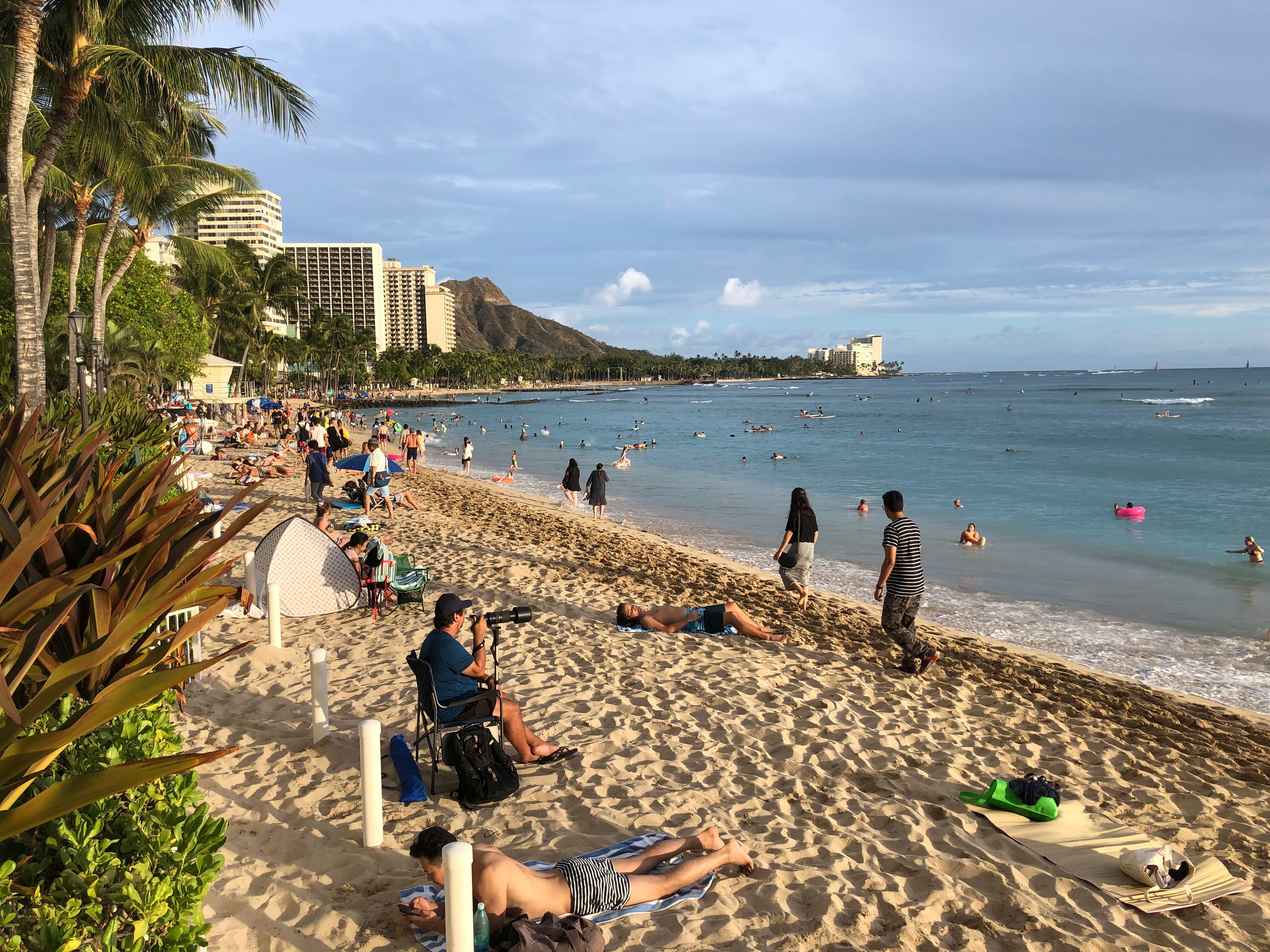 Waikiki Beach 1